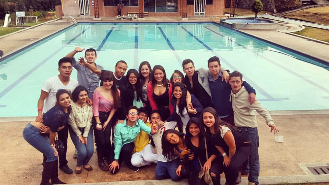 The welcome for Law Students from the Pontifical Catholic University of Ecuador